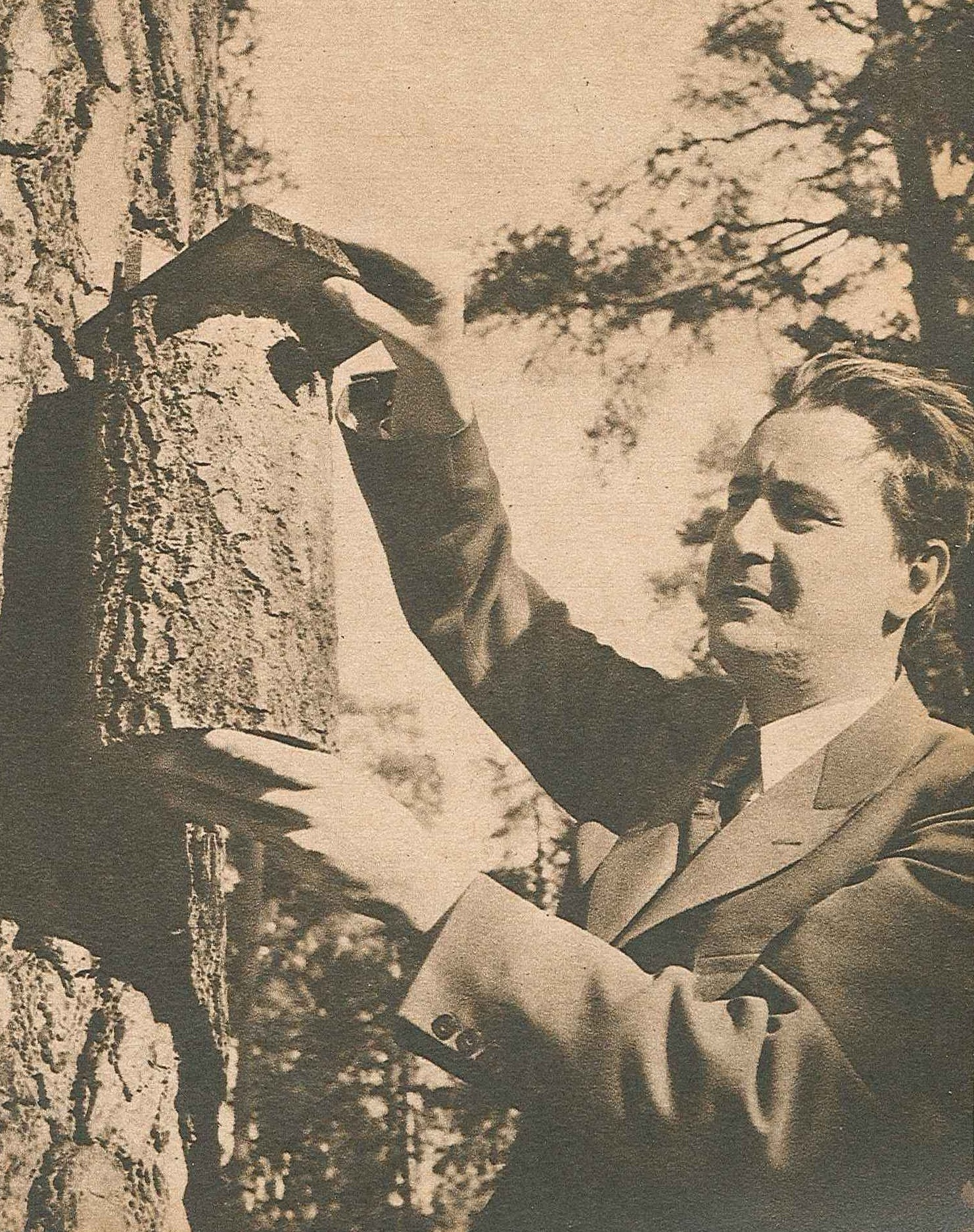 Fritz Thorén (1899-1950), Swedish author.